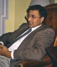 Shahn Majid in Cambridge in 1998 for use in an article